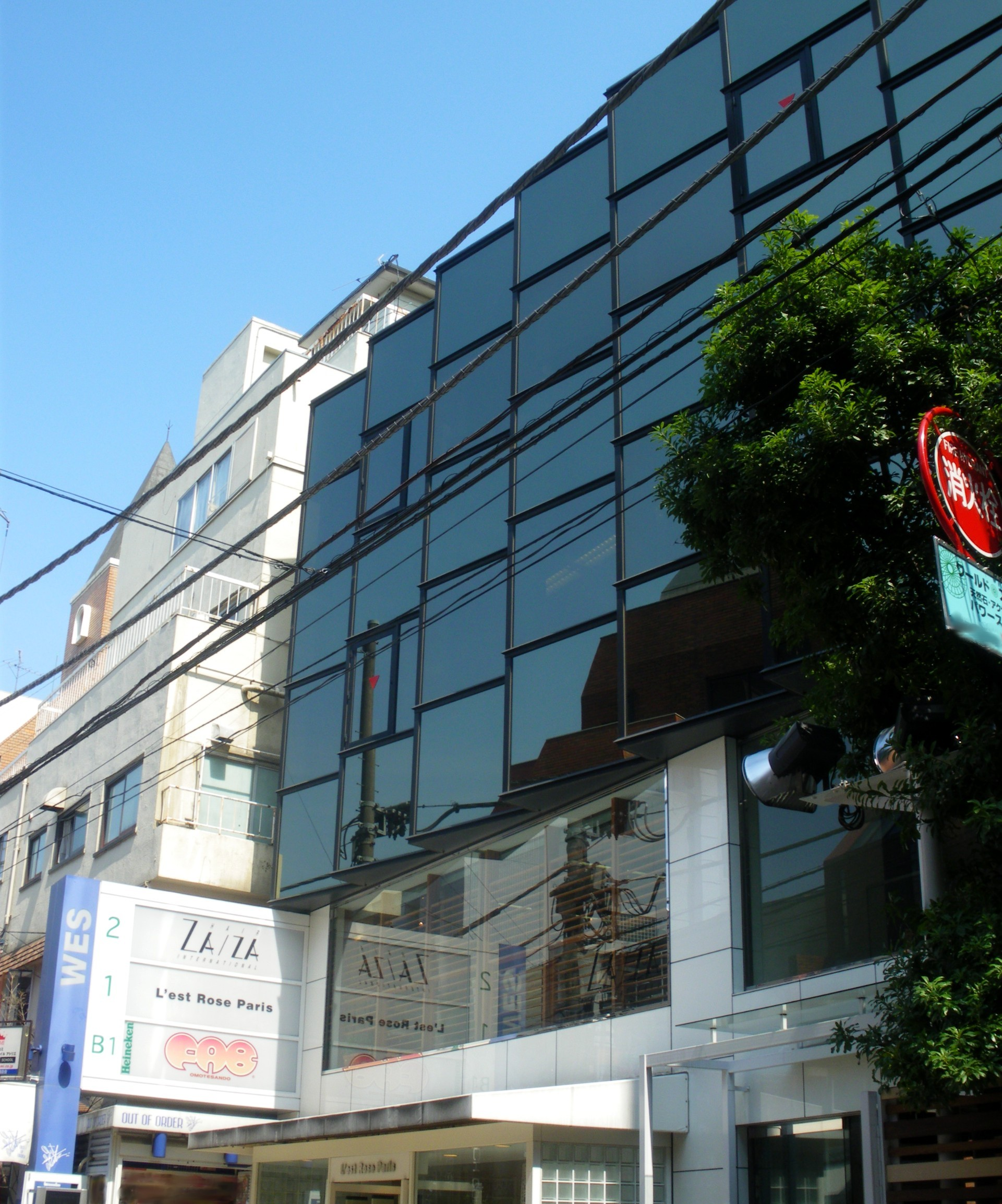 A photo of WES Building,Jingumae,Shibuya-ku,Tokyo,Japan.